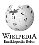 Wikipedia logo 2.0